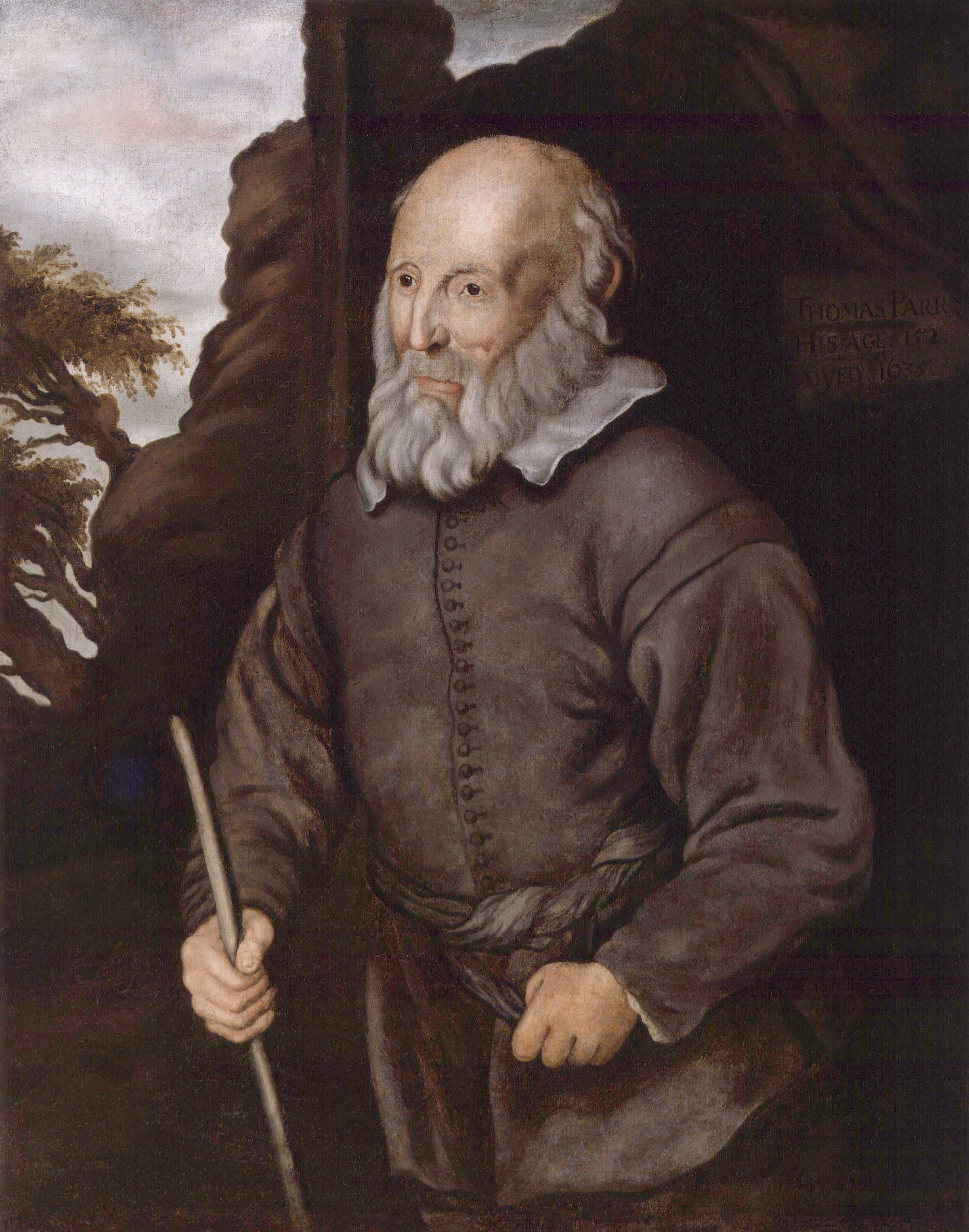 Thomas Parr, by unknown artist. All images in this batch are listed as "unknown author" by the NPG, who is diligent in researching authors, and was donated to the NPG before 1939 according to their website.